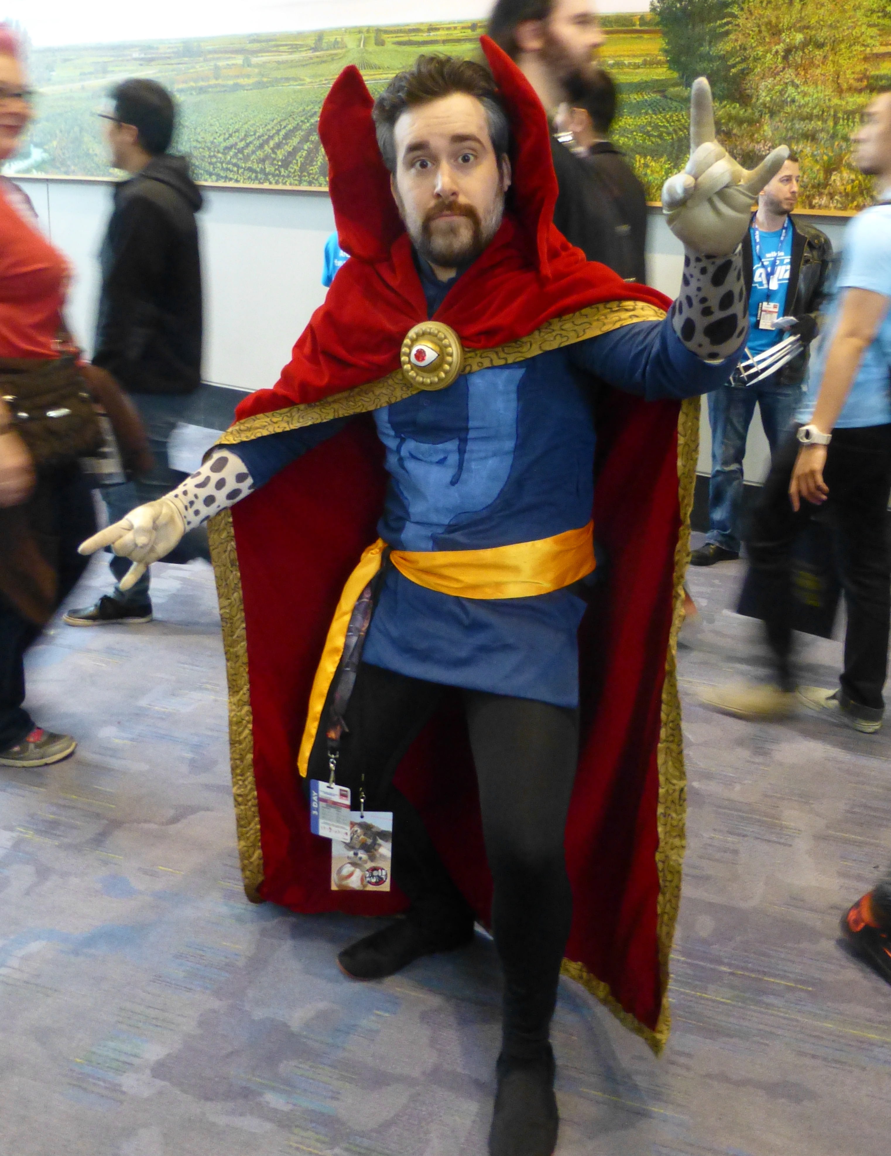 Dr Strange Cosplay at Chicago Comic & Entertainment Expo (C2E2) 2015.